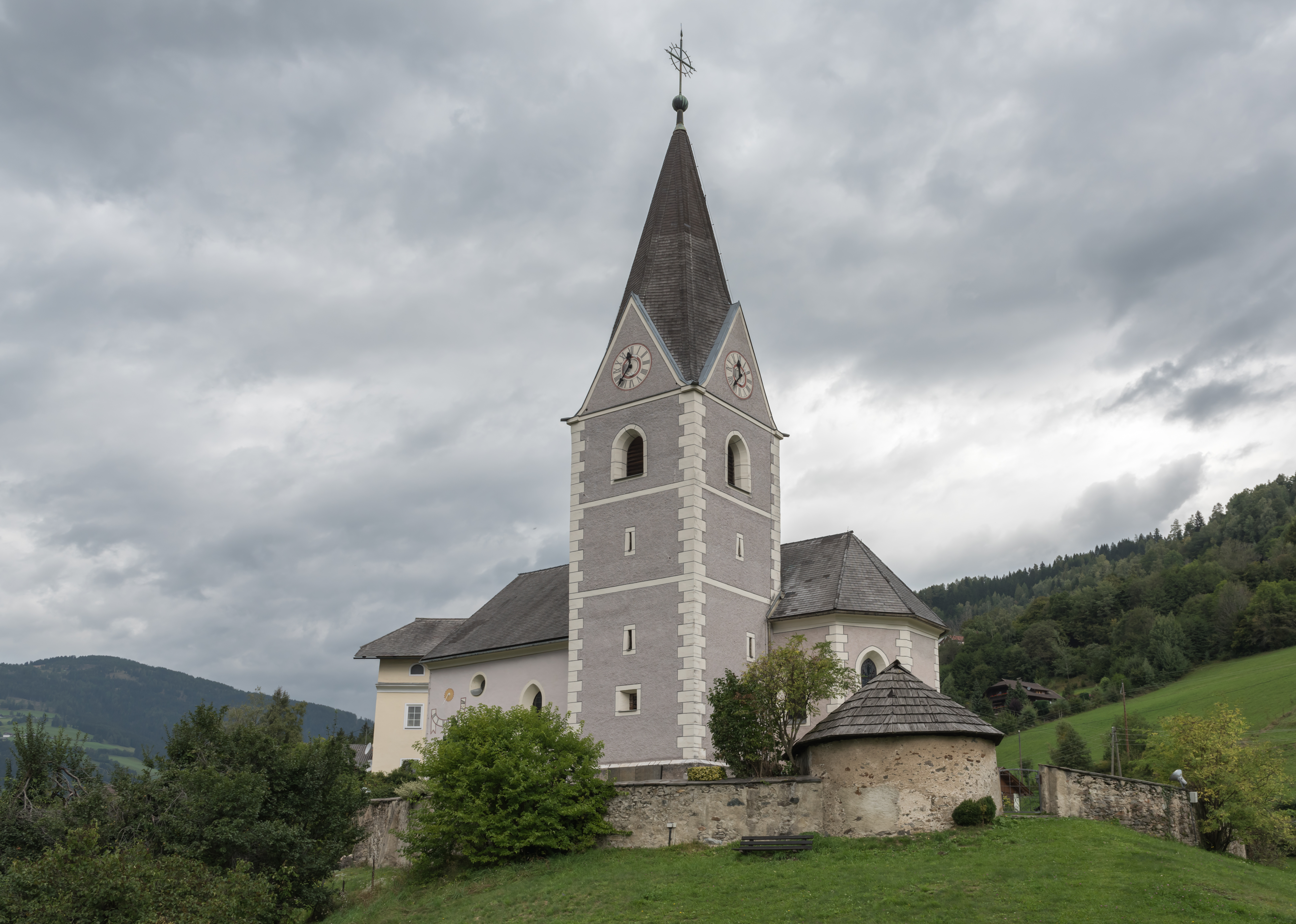 Parish church Saint Peter and cemetery in Tweng, municipality Radenthein, district Spittal an der Drau, Carinthia, Austria, EU